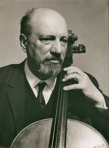 The kroatic cello player Rudolf Matz